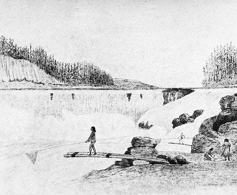 A drawing of a Native American fishing at Willamette Falls in 1841.